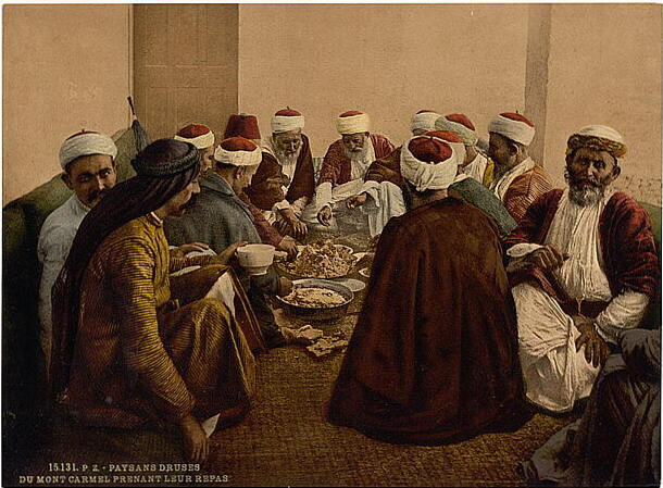 Geography of Israel